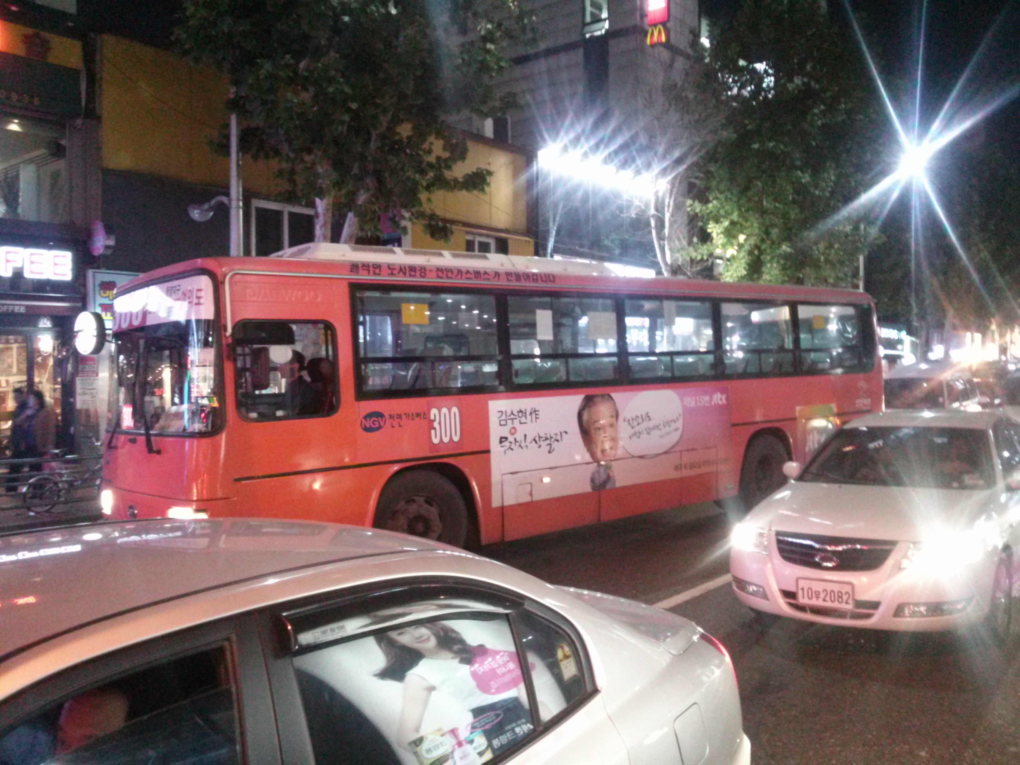 Daewoo BS106 RoyalCity Seat bus '07 for Incheon SeonJin No.300